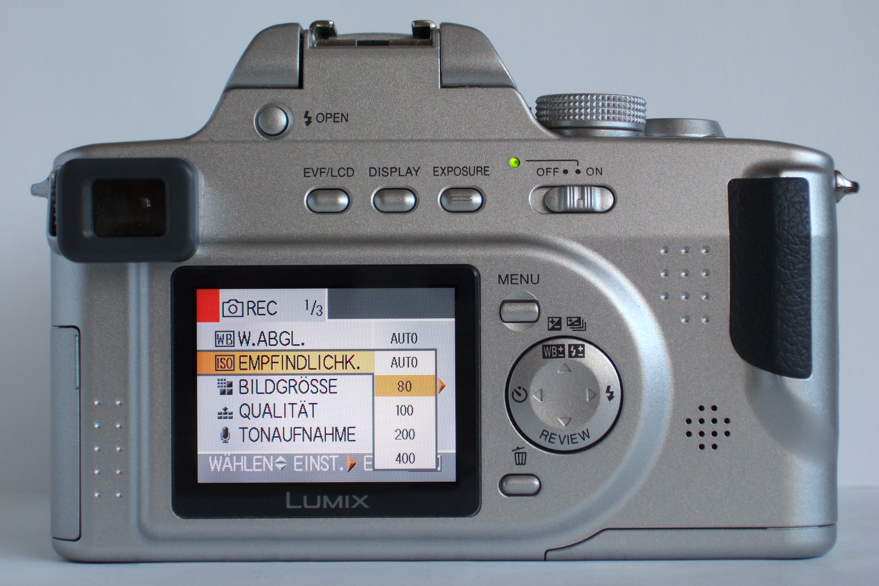 Back View Of The Panasonic Lumix DMC-FZ20 with Setup Menu